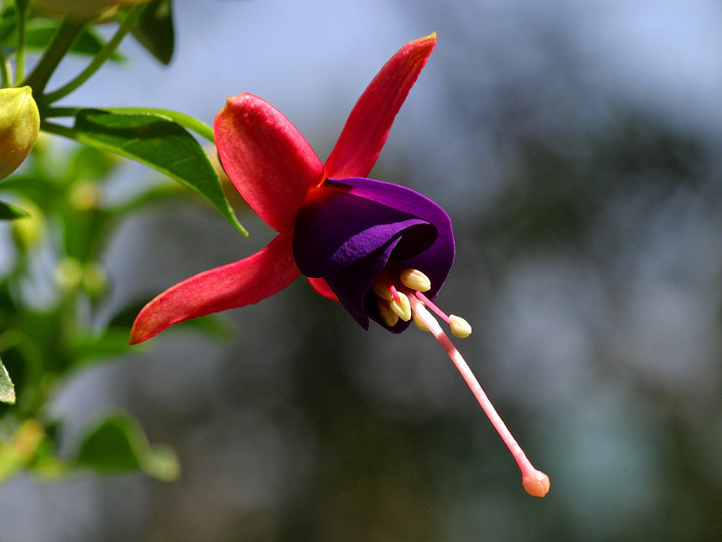 From en.wikipedia, token from